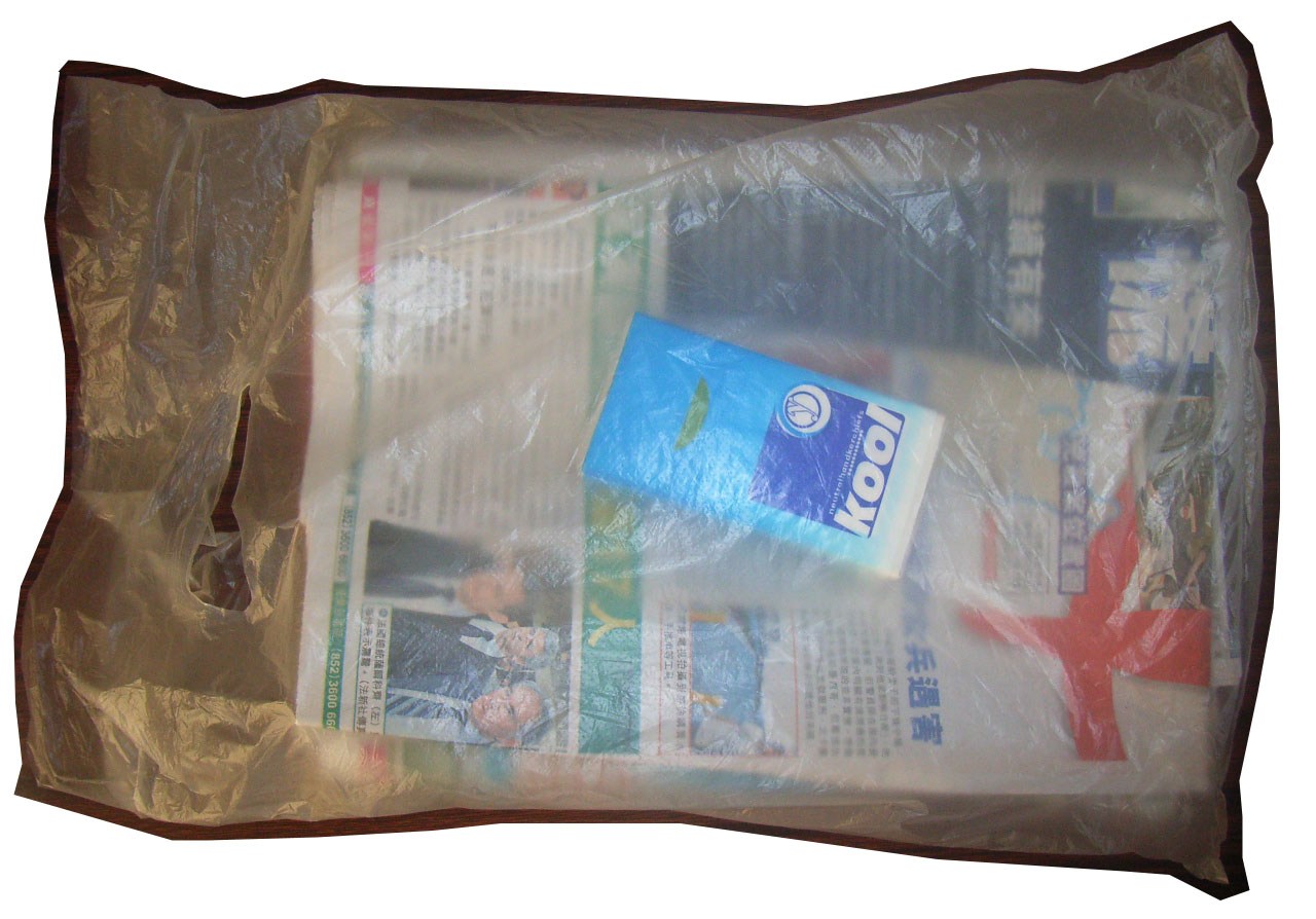 膠袋稅 - Hong Kong newspaper with its gift and package.